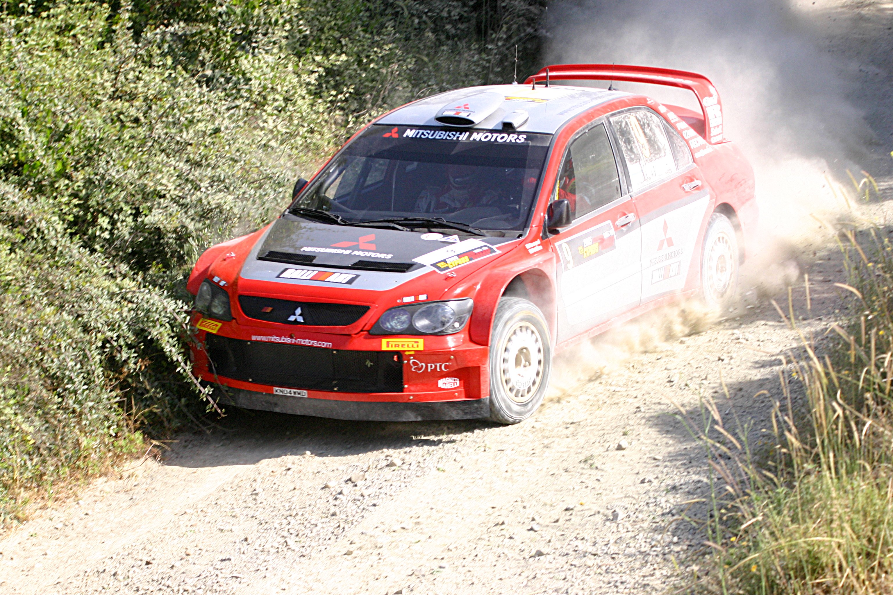 Harri Rovanperä driving his Mitsubishi Lancer WRC at the 2005 Cyprus Rally.